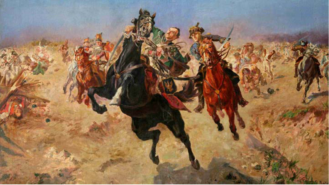 Stanisław Batowski, Casimir Pulaski death near savannah, 1933